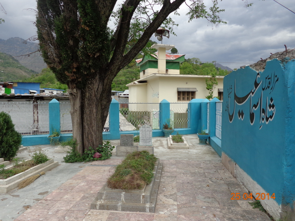 Photographer : Ahmad Abdullah Saqib